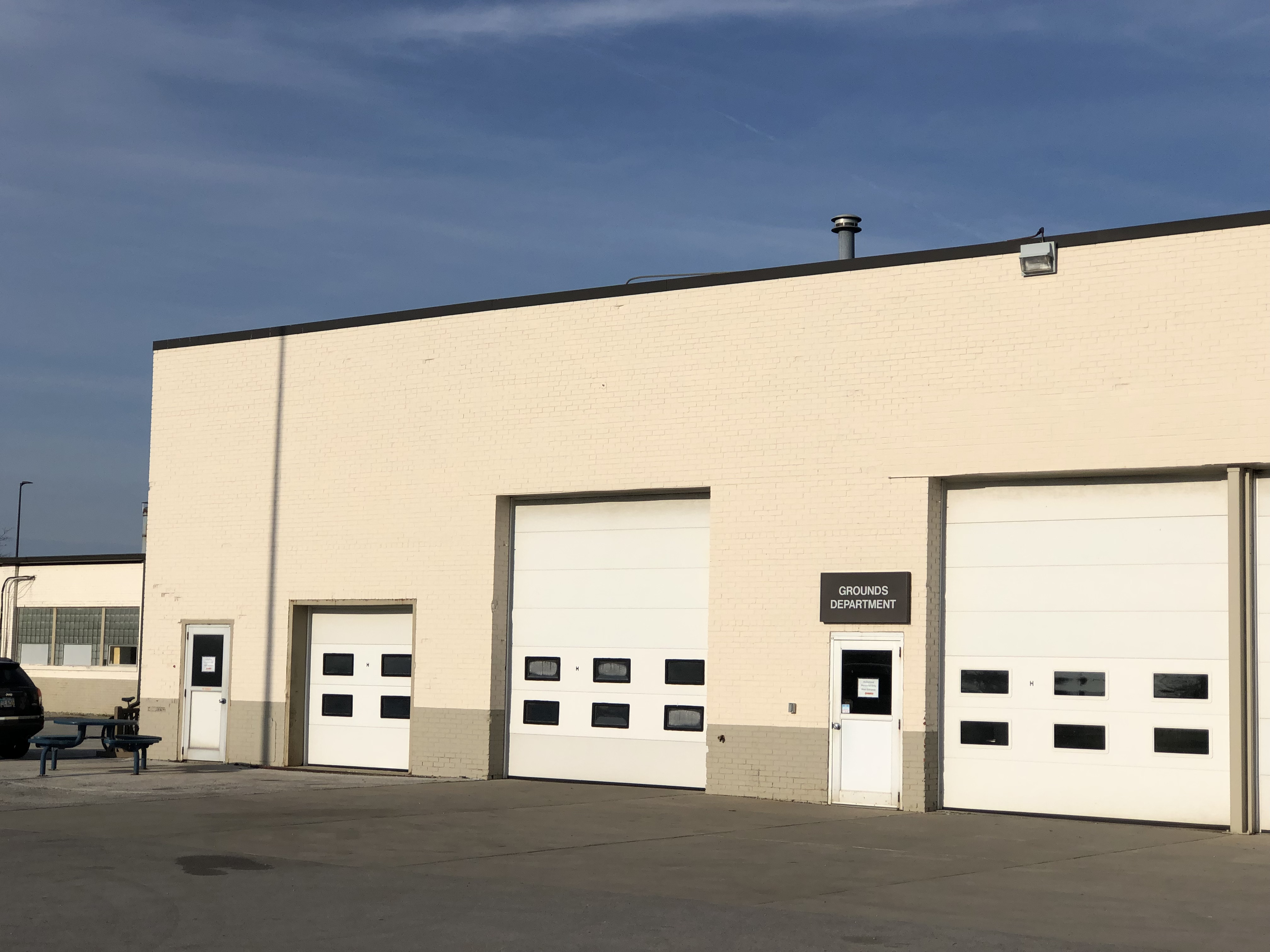 The Campus Operations building of Bowling Green State University.